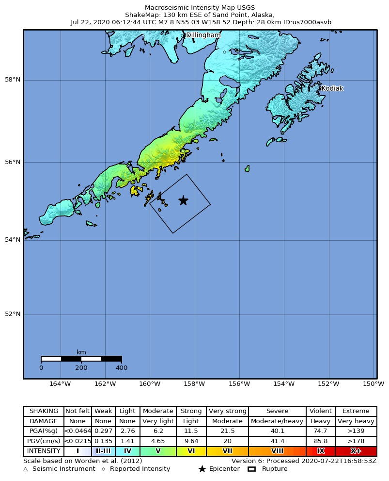 M 7.8 - 105 km SSE of Perryville, Alaska - ShakeMap